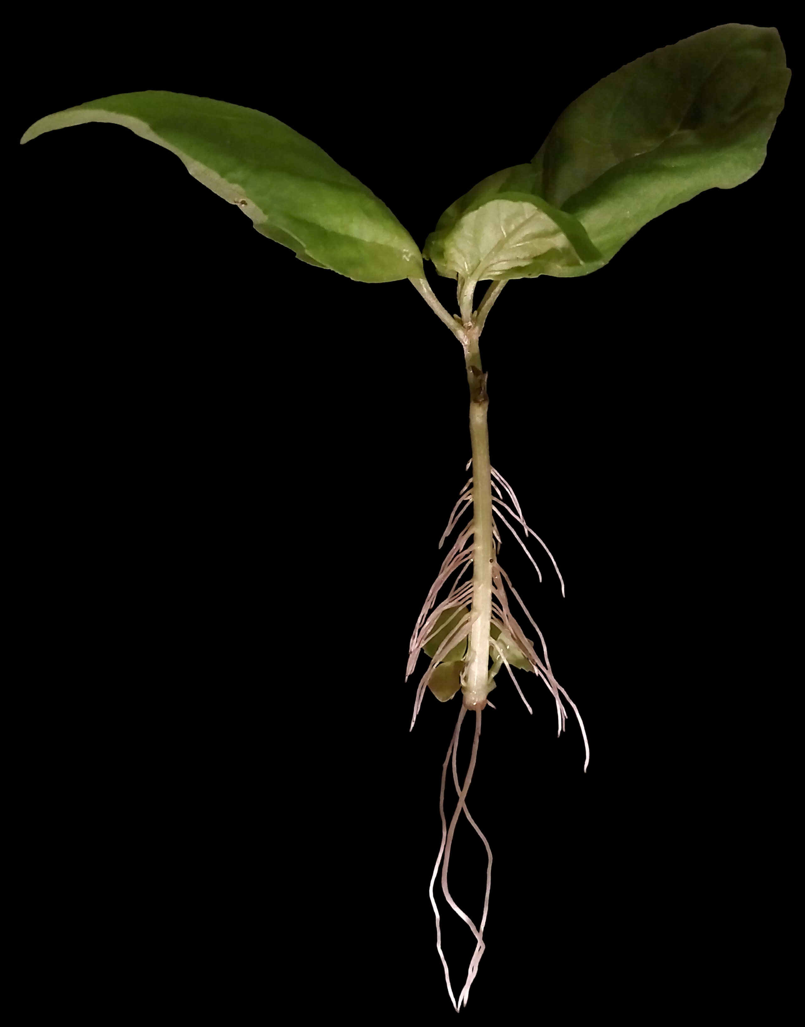 Rooted Basil cutting.